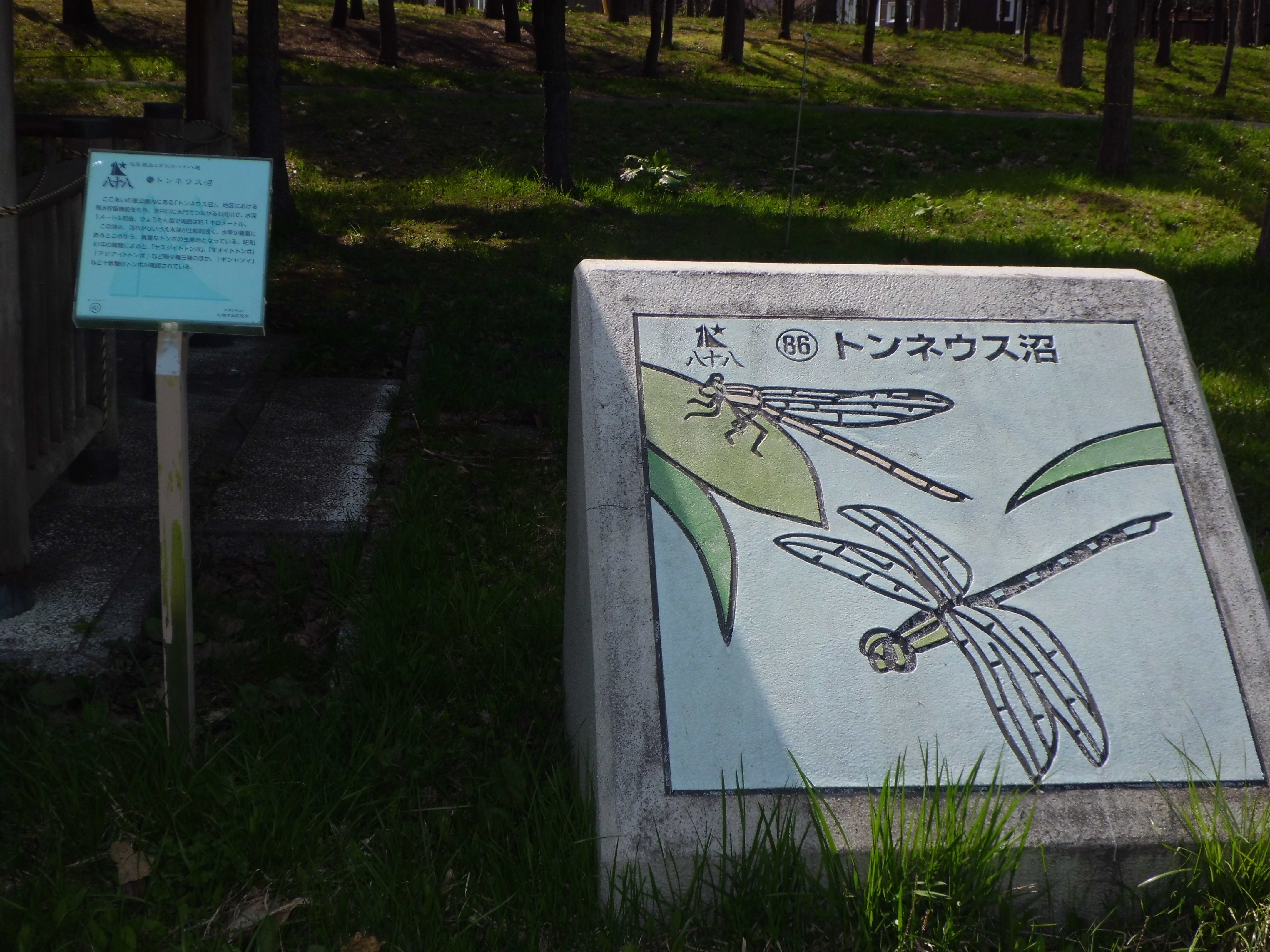 Monument of Tonneusu Pond